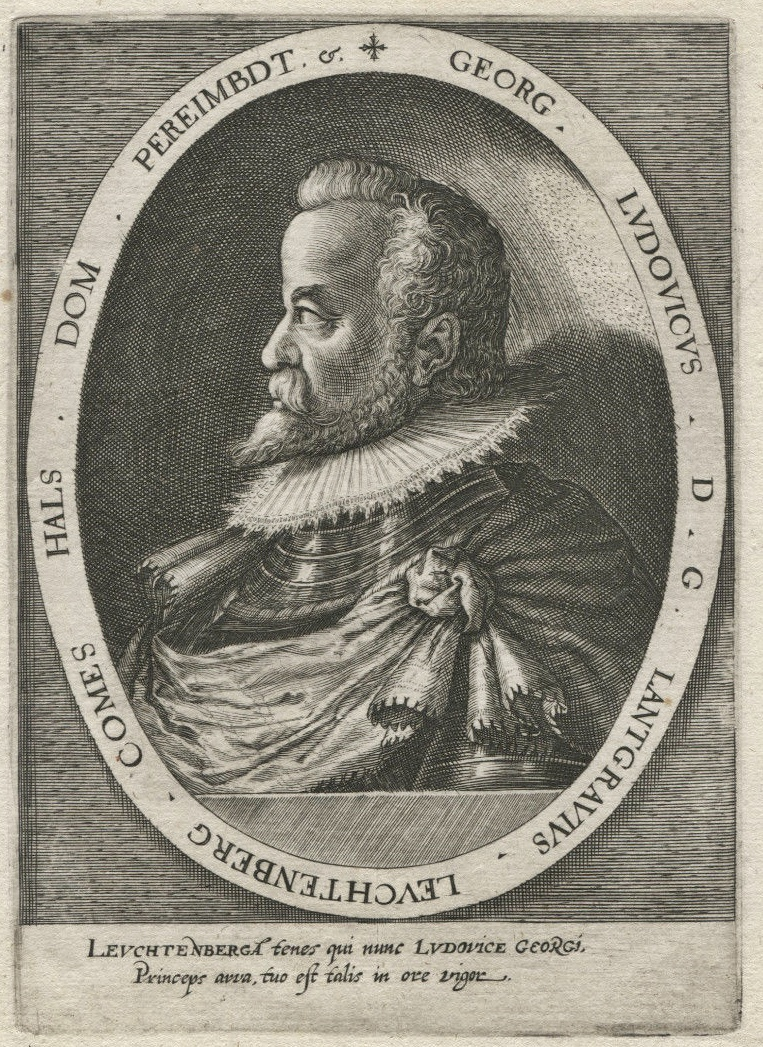 Landgraf Georg IV. Ludwig von Leuchtenberg (1563-1613)